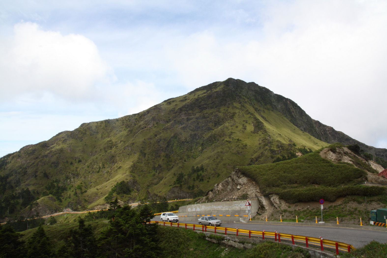 Hehuan East Peak taken at Wuling.